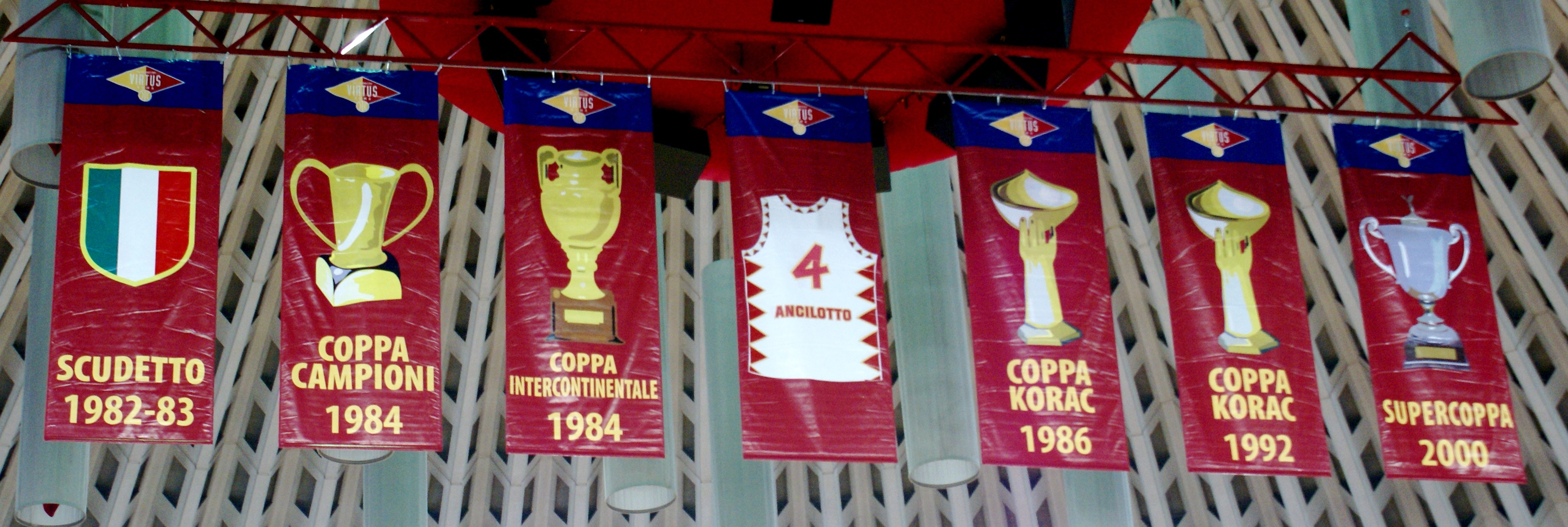 Pallacanestro Virtus Roma championship banners